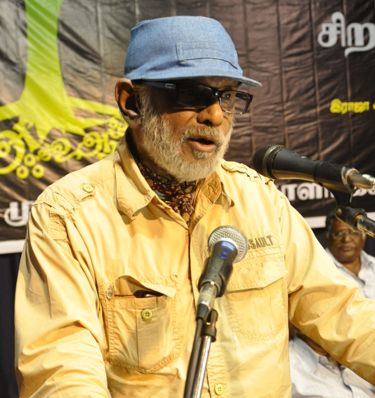 Balu Mahendra in Tamil Nadu Progressive Writers and Artistes Association